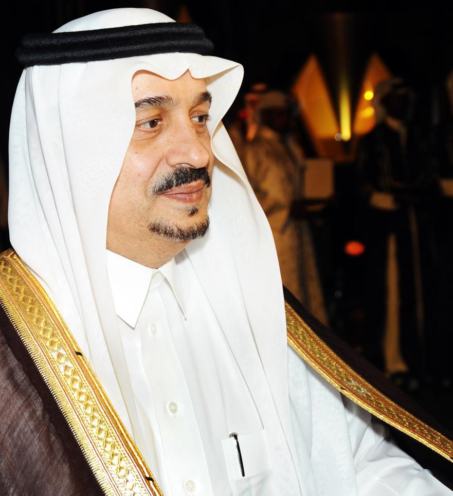 Faisal bin Bandar bin Abdulaziz, Governor of Al-Qassim region.